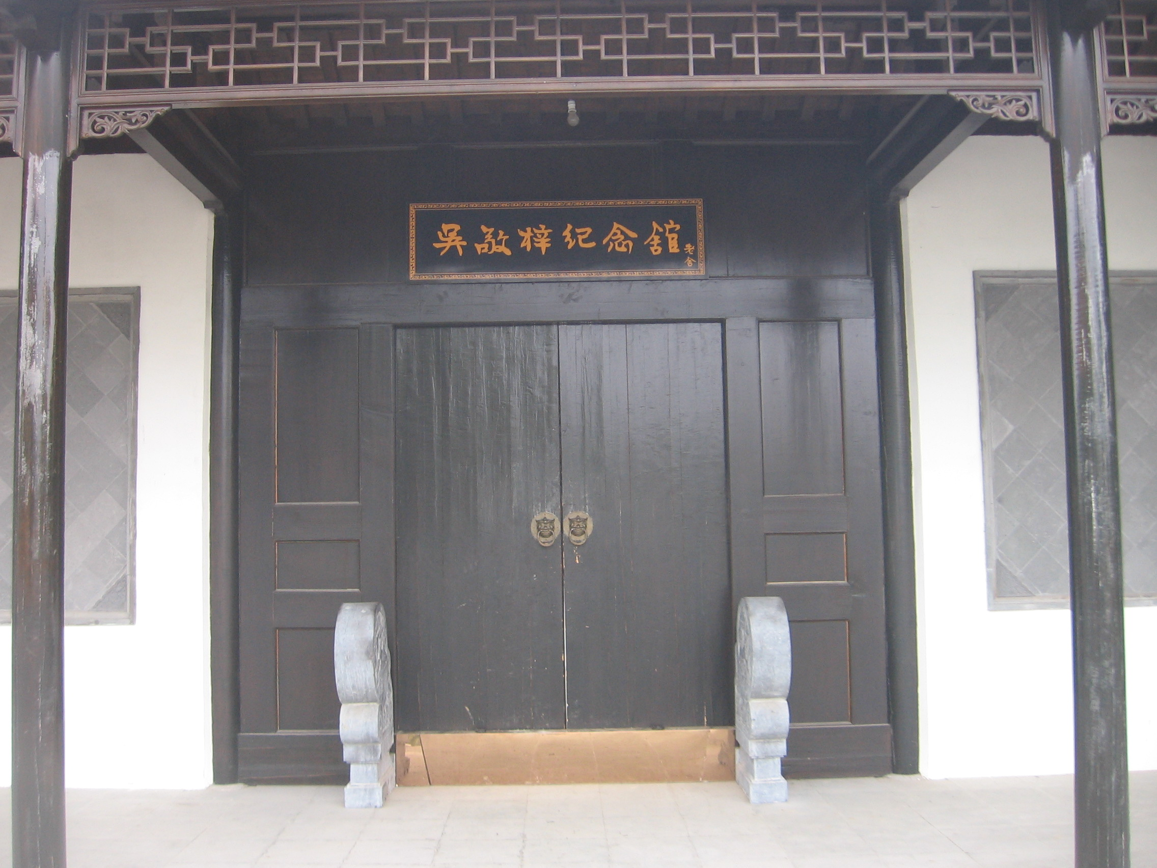 Wu Jingzi Memorial Hall in Quanjiao County, Chuzhou City, Anhui Province, China.